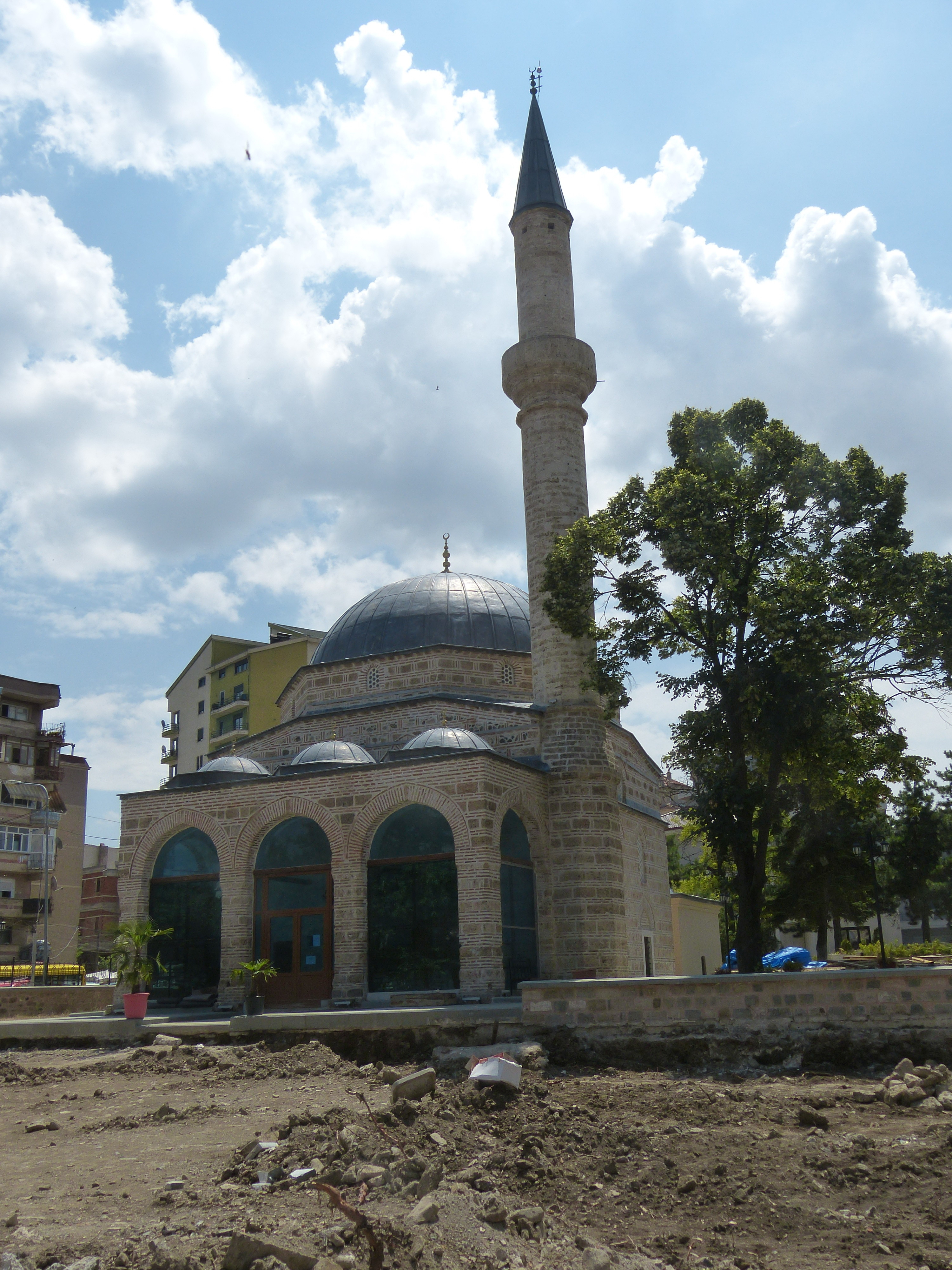 Korçë ( Albania ). Mirahor mosque ( 1496 )